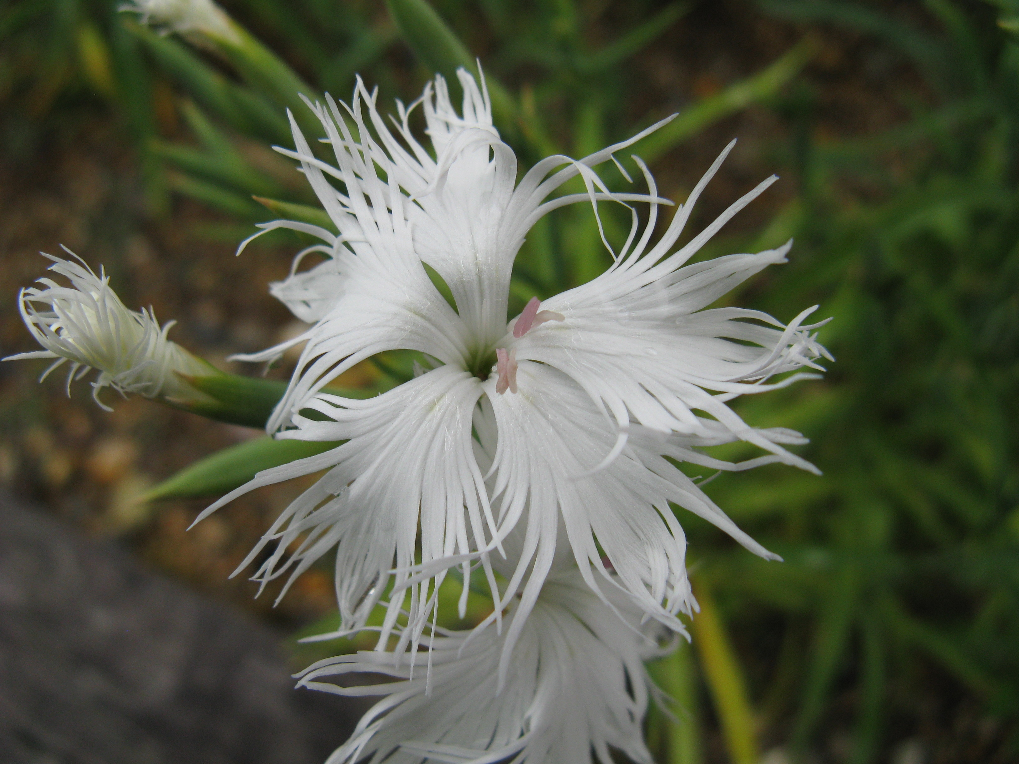 Scientific name Dianthus superbus subsp. longicalycinus